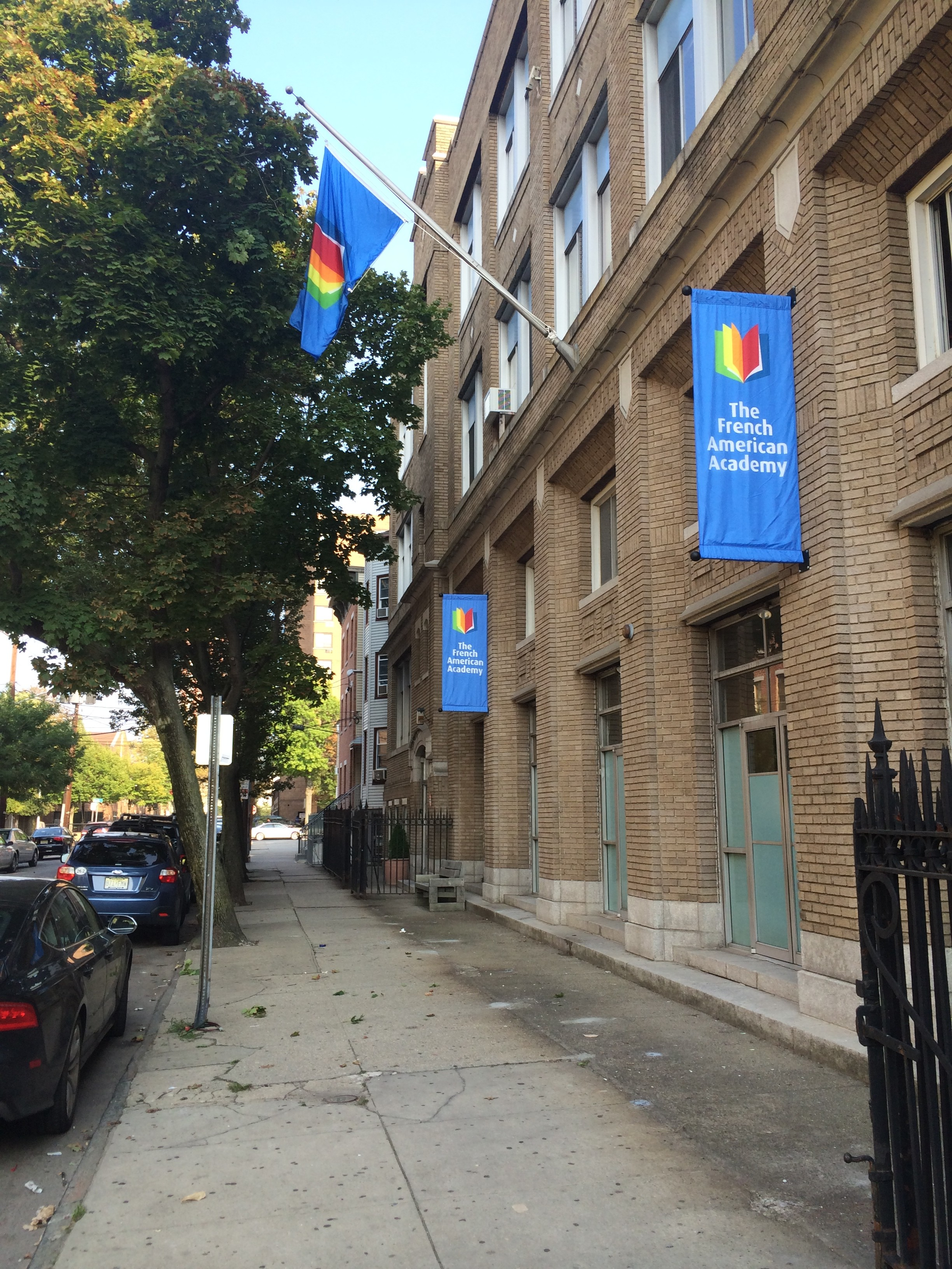 The French American Academy front of the building on 3rd street